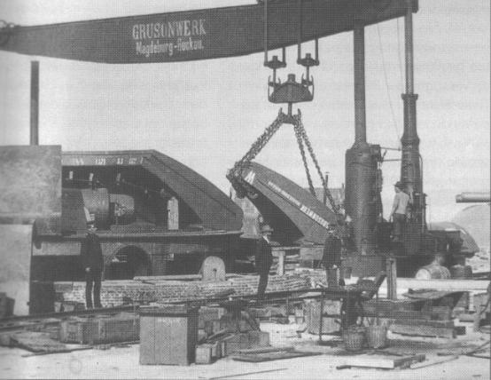 Placing of armourplates at Fort Pampus, near Amsterdam, the Netherlands.